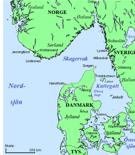 Map of Skagerrak and Kattegat with places relevant to the Kvarstad-ships (Denmark, Norway, Sweden). (Mercator-projection, data from 2005.)